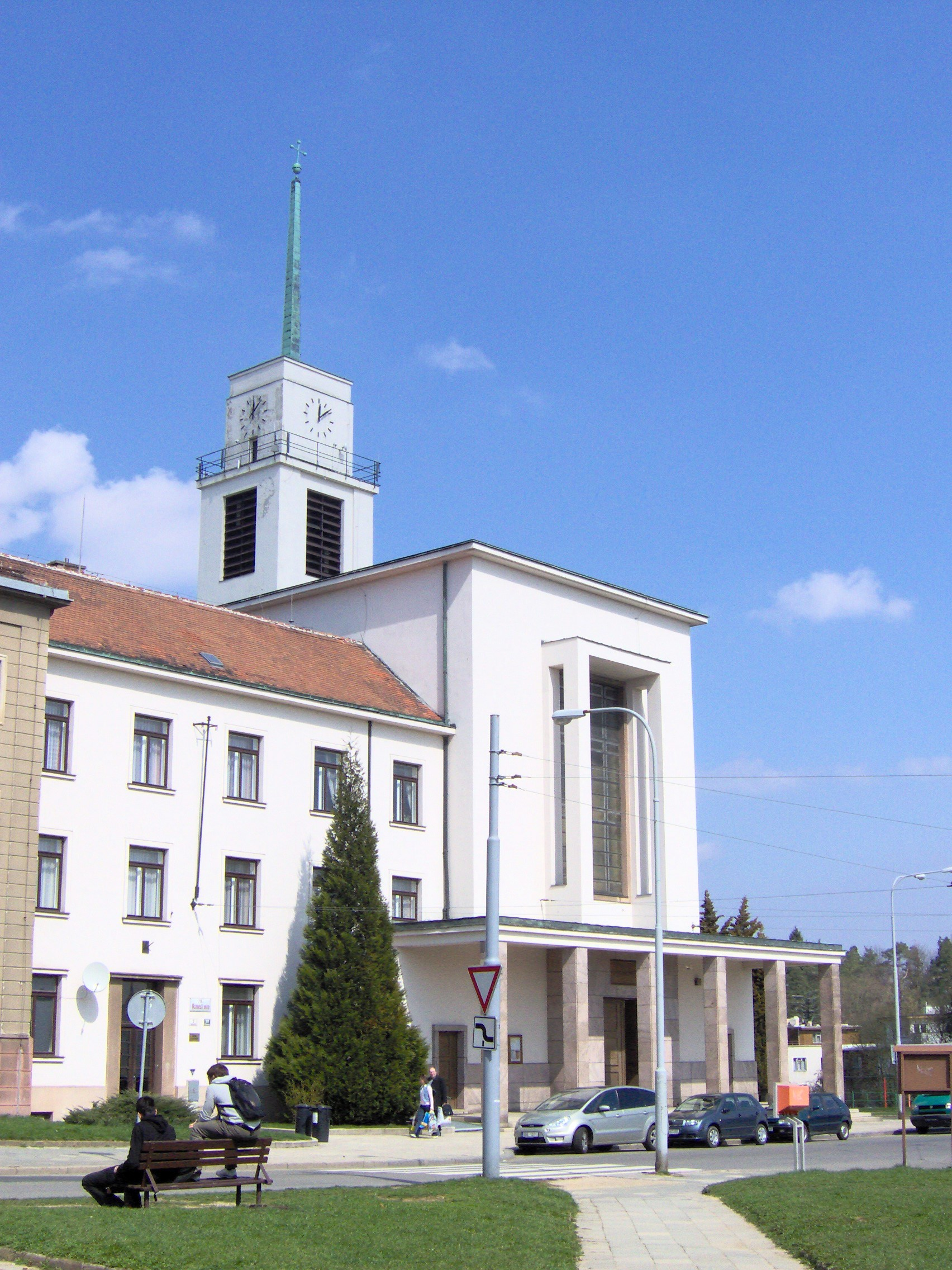 Rectory and Saint Augustine church, Brno, Czech Republic